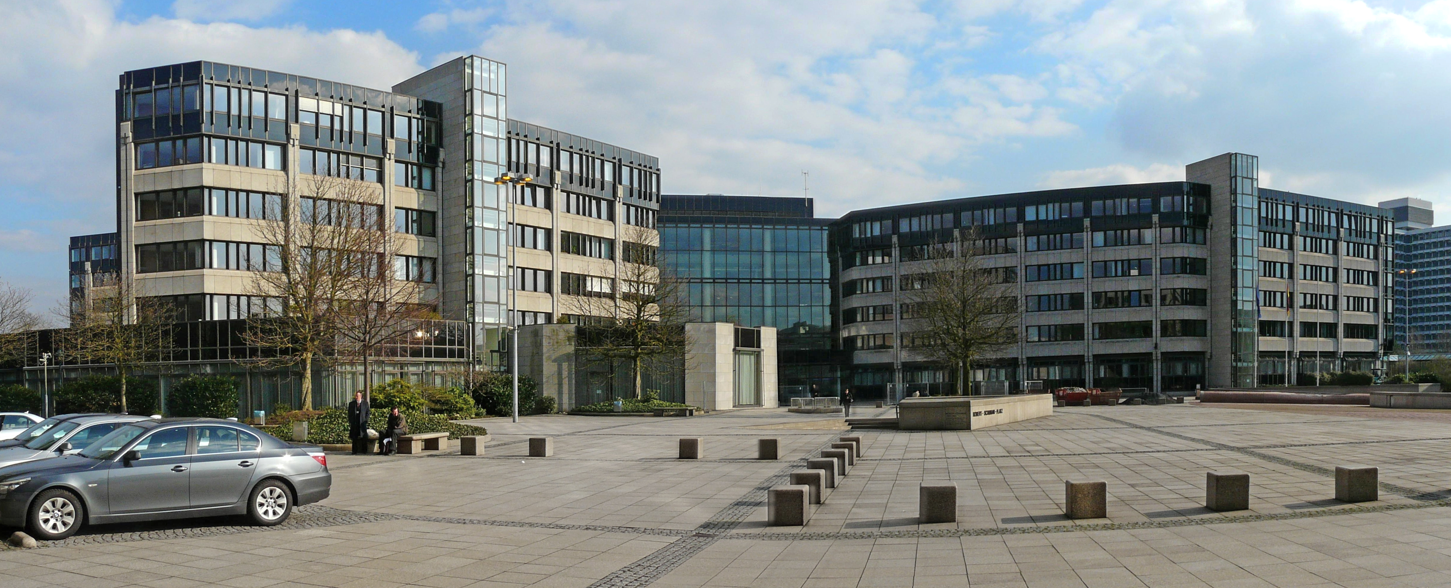 Federal Ministry of Transport, Building and Urban Affairs office building in Bonn. View from Robert Schuman Square. Headquarters of the Eisenbahn-Unfalluntersuchungsstelle des Bundes